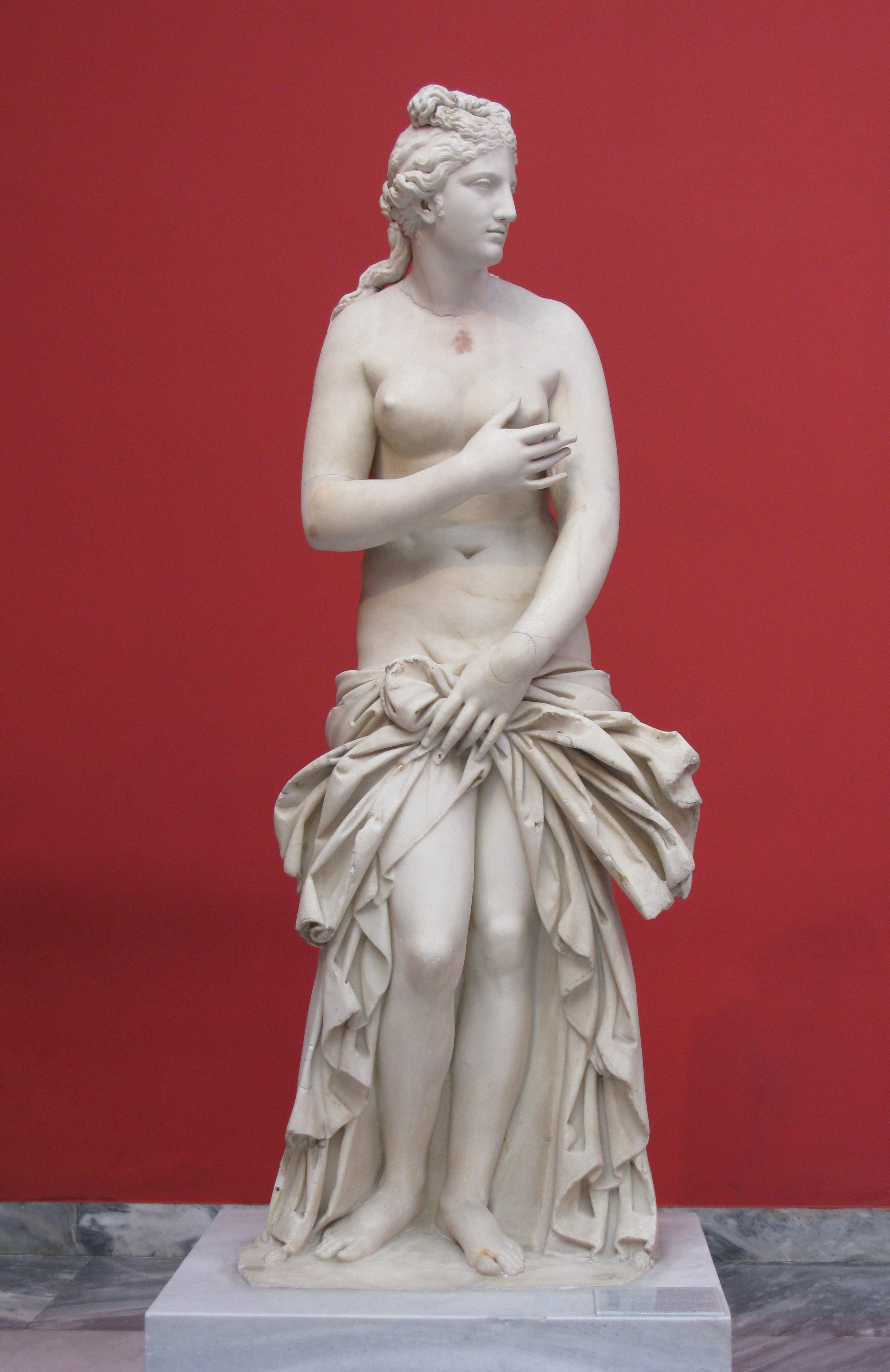 Statue of Aphrodite, 2nd c. BC. 3524. Statue of Aphrodite. Parian marble. Found at Baiai in southern Italy. It formerly belonged to the collection of Lord Hope and was donated to the National Museum by M. Embeirikos in 1924. The neck, head and right arm were restored by the famous Italian sculptor Antonio Canova (1757-1822). Aphrodite is depicted standing, nude save for a richly draped himation which she retains with her left hand in front of her pudenda. Version made in the 2nd c. AD of the type of the Syracuse Aphrodite, the original of which goes back to the 4th c. BC. National Archaeological Museum of Athens, Greece